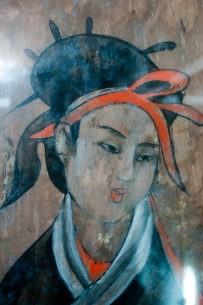 The Dahuting Tomb (Chinese: 打虎亭汉墓, Pinyin: Dahuting Han mu; Wade-Giles: Tahut'ing Han mu) of the late Eastern Han Dynasty (25-220 AD), located in Zhengzhou, Henan province, China, was excavated in 1960-1961 and contains vault-arched burial chambers decorated with murals showing scenes of daily life. For further information, see the Baidu article (in Chinese): 打虎亭汉墓. Click here for more pictures and a step-by-step walkthrough of the tomb, from the outside, down a stairwell, and through the vaulted burial chambers.